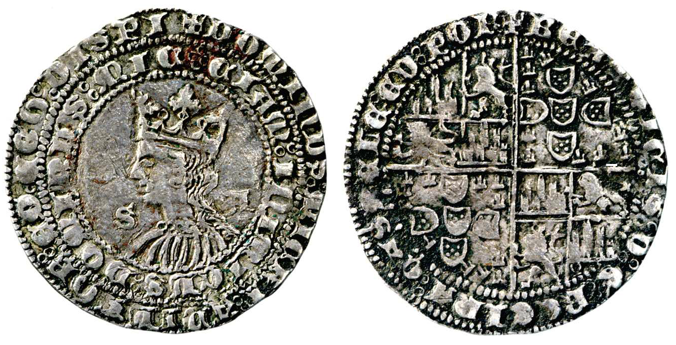 A "real" coin bearing the effigy of Beatrice of Portugal, pretender to the throne of Portugal in 1383-1385.